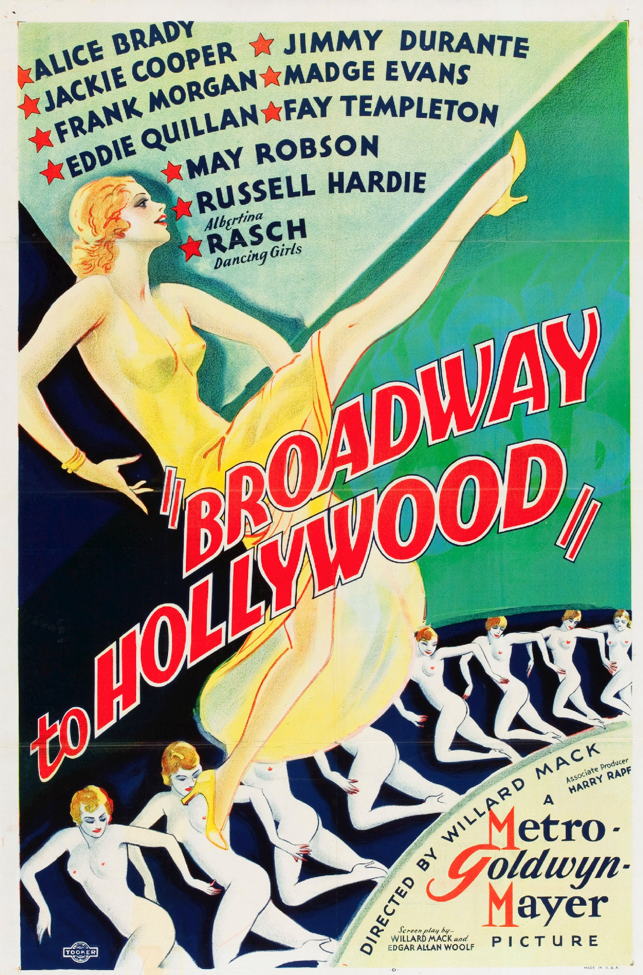 Poster for the 1933 film Broadway to Hollywood. There are no copyright marks. At lower left is a logo for the Tooker Litho Company-they printed the poster. At middle bottom is "-D-" for poster version D and at bottom right is Made in USA.